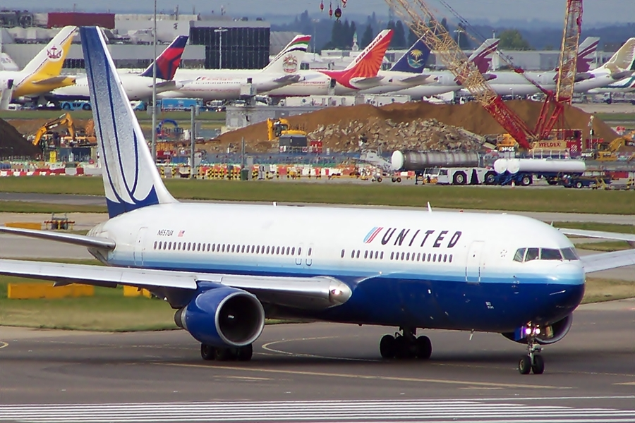 N657UA Boeing 767 United